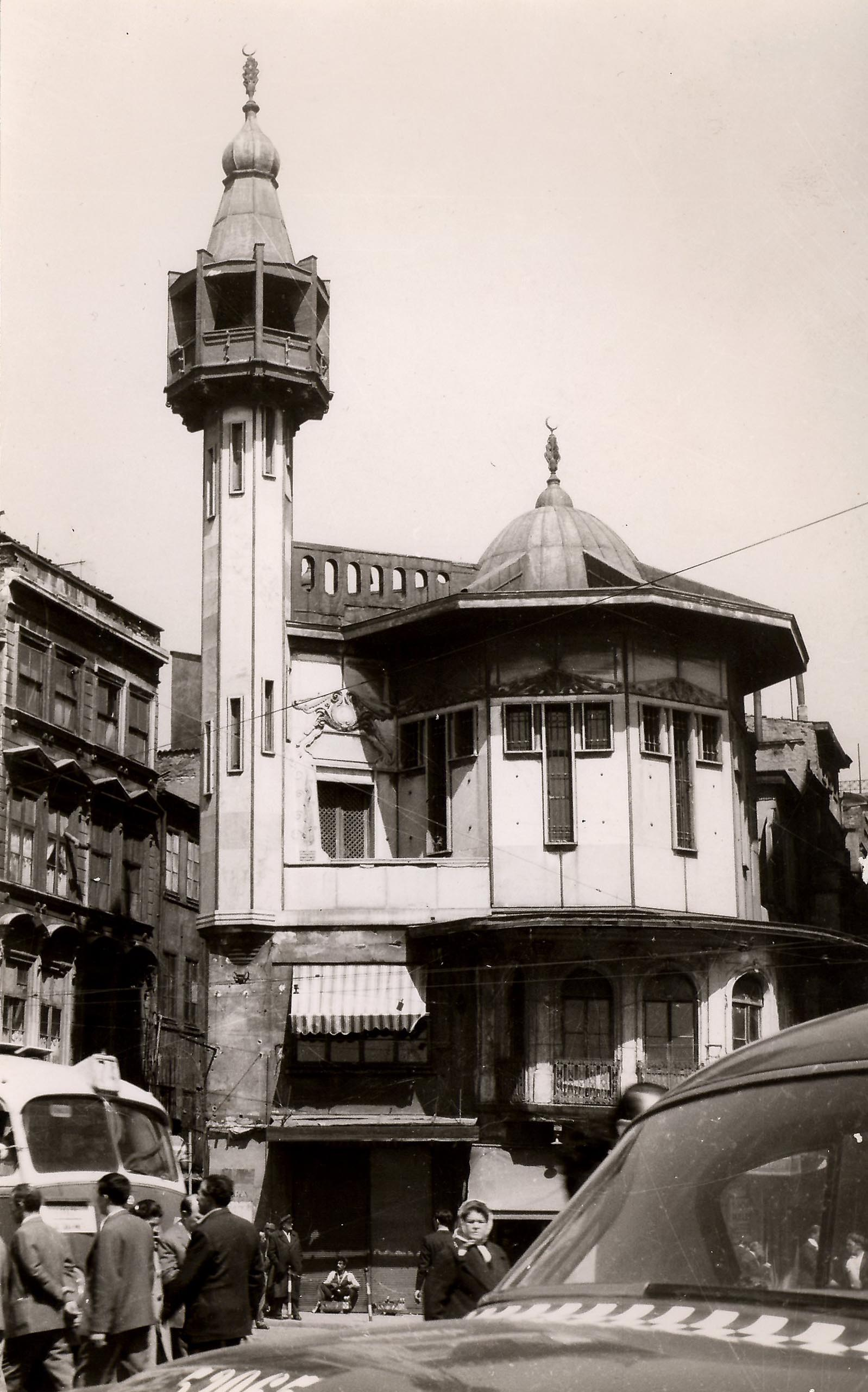 Karaköy Mosque, also known as Merzifonlu Kara Mustafa Paşa Mosque was built on the order of Abdülhamid II in 1903 on Karaköy square by the architect Raimondo D’Aronco. The mosque is designed in an alternative form of Art Nouveau style, interpreted according to the trending styles in İstanbul found at the beginning of the 20th century. It was demolished in 1958 as a result of the political views and urban planning of the Democratic Party. Two large marble plates of the mosque were later found in Kınalı Island. In 2012 a proposal was put forward to rebuild the mosque, but as yet nothing official has been planned. SALT Research, Harika-Kemali Söylemezoğlu Archive